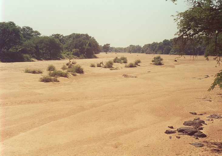 Mwenezi River at Mwenezi Centre, Zimbabwe